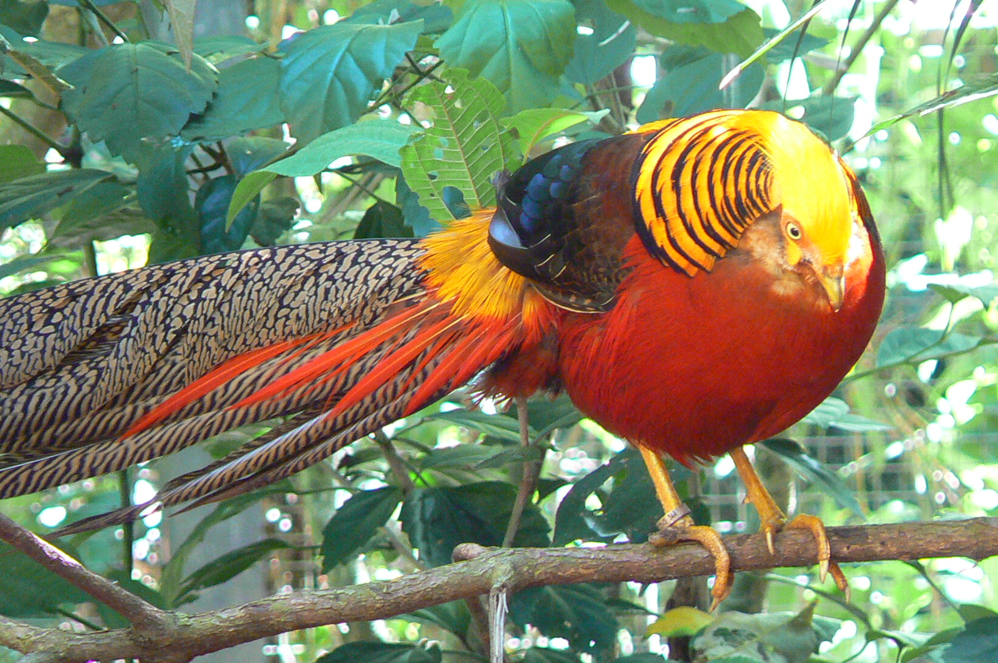 A male Golden Pheasant in Parque das Aves, Foz do Iguaçu, Brazil.